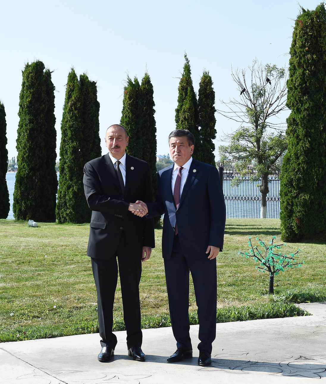 6th Summit of Cooperation Council of Turkic Speaking States kicks off in Cholpon-Ata